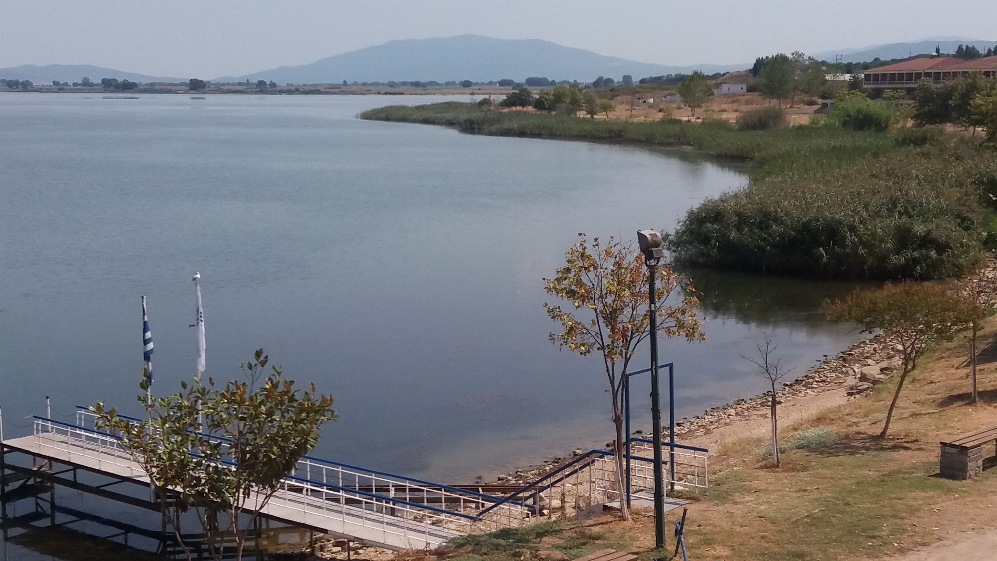 The view to the Lake Volvi from the Thermal spa of Nea Apollonia